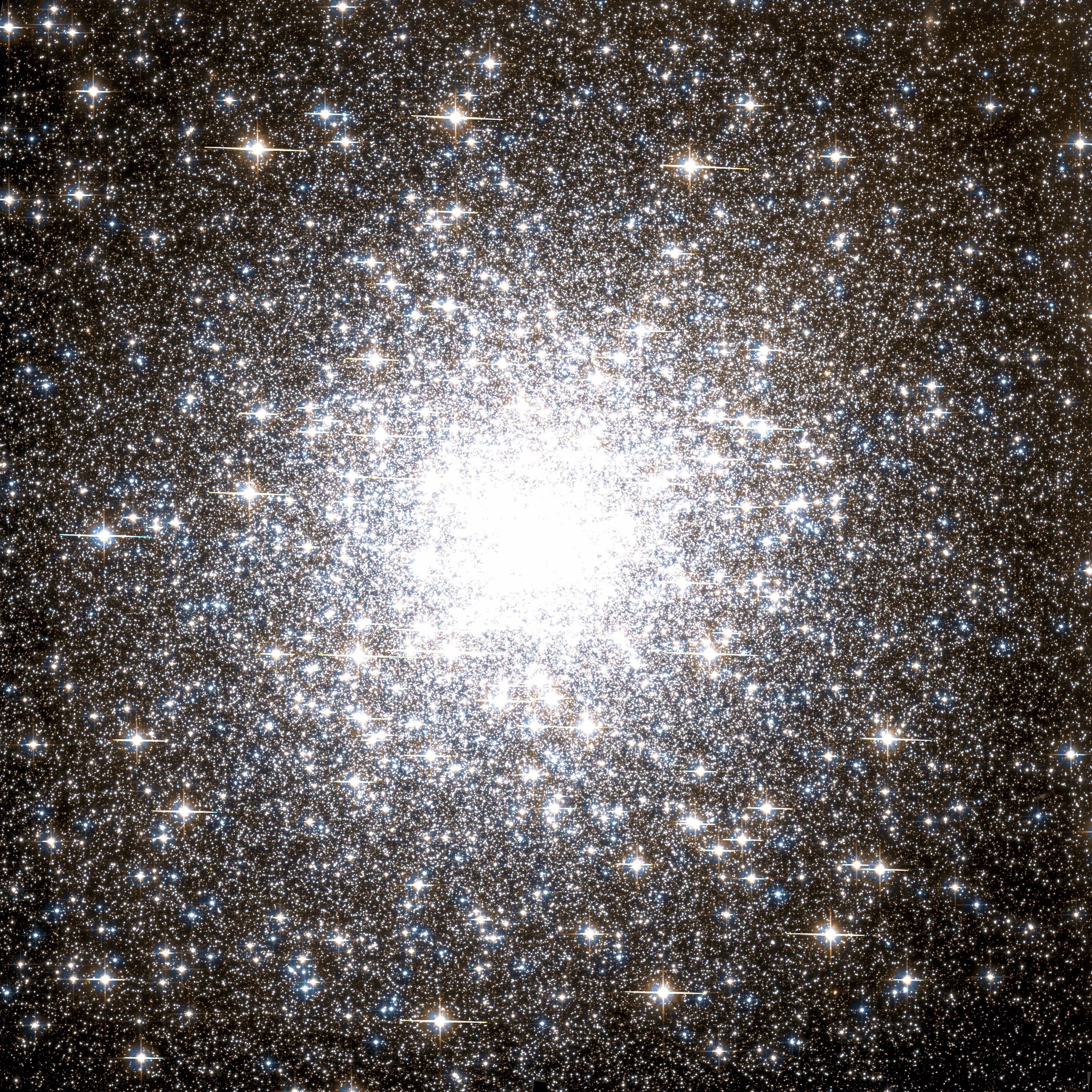 Messier 2 globular cluster by Hubble Space Telescope; 3.5′ view